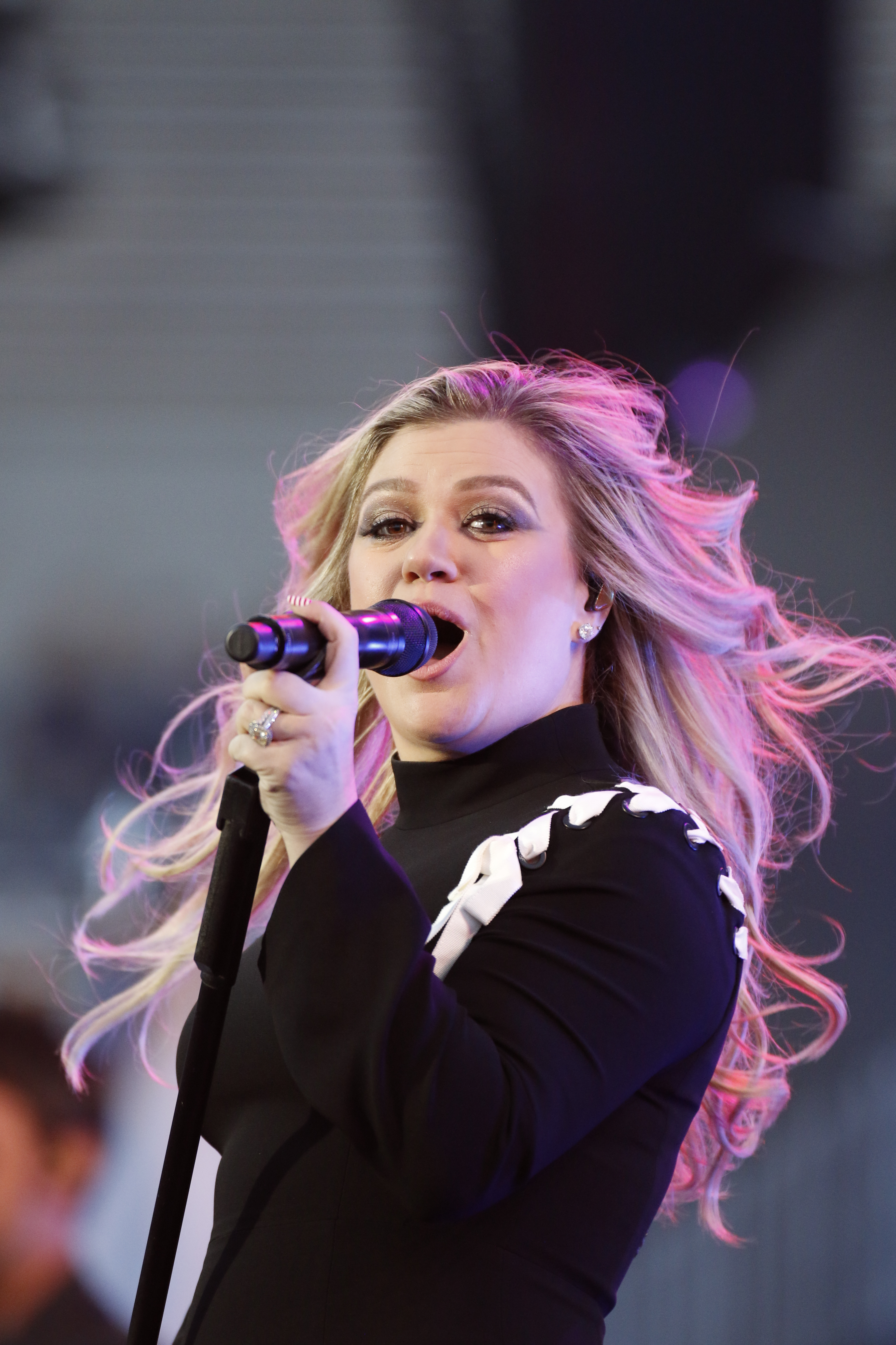 The 2018 Department of Defense Warrior Games Opening Ceremonies featured the introduction of athletes, the lighting of the Games torch and a concert by Kelly Clarkson at the Air Force Academy in Colorado Springs, Colo. June 2, 2018. The Warrior Games are a Paralympic-style annual competition, established in 2010, to provide adaptive sports opportunities for wounded, ill and injured service members from all U.S. service branches and international military teams. (DOD Photo By: Marc Piscotty)